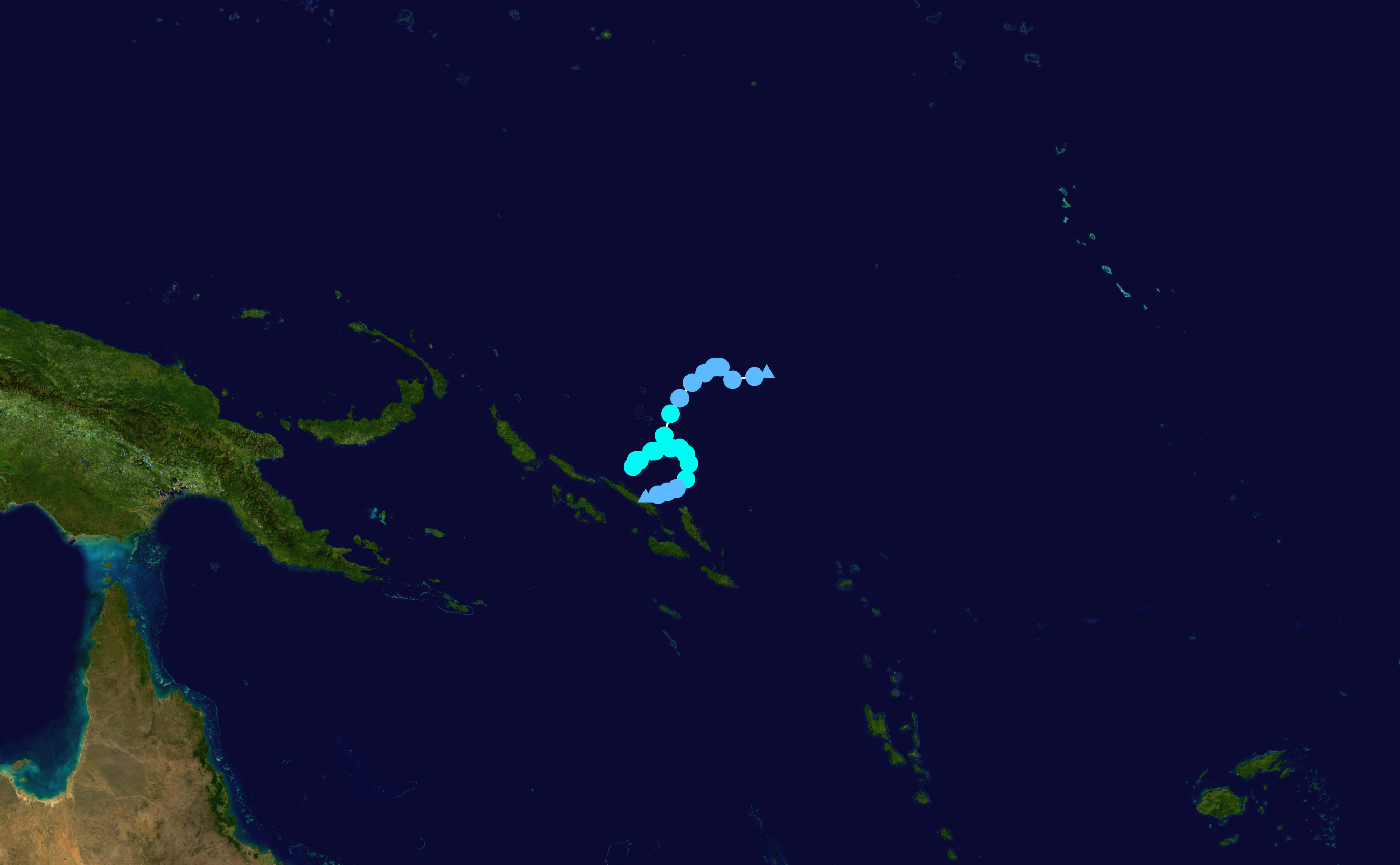 Track map of Tropical Cyclone Raquel of the 2014-15 Australian region cyclone season and the 2015-16 South Pacific cyclone season. The points show the location of the storm at 6-hour intervals. The colour represents the storm's maximum sustained wind speeds as classified in the Saffir–Simpson scale (see below), and the shape of the data points represent the nature of the storm, according to the legend below. Saffir–Simpson scale Tropical depression≤38 mph≤62 km/h Category 3111–129 mph178–208 km/h Tropical storm39–73 mph63–118 km/h Category 4130–156 mph209–251 km/h Category 174–95 mph119–153 km/h Category 5≥157 mph≥252 km/h Category 296–110 mph154–177 km/h Unknown Storm type Tropical cyclone Subtropical cyclone Extratropical cyclone / Remnant low / Tropical disturbance / Monsoon depression